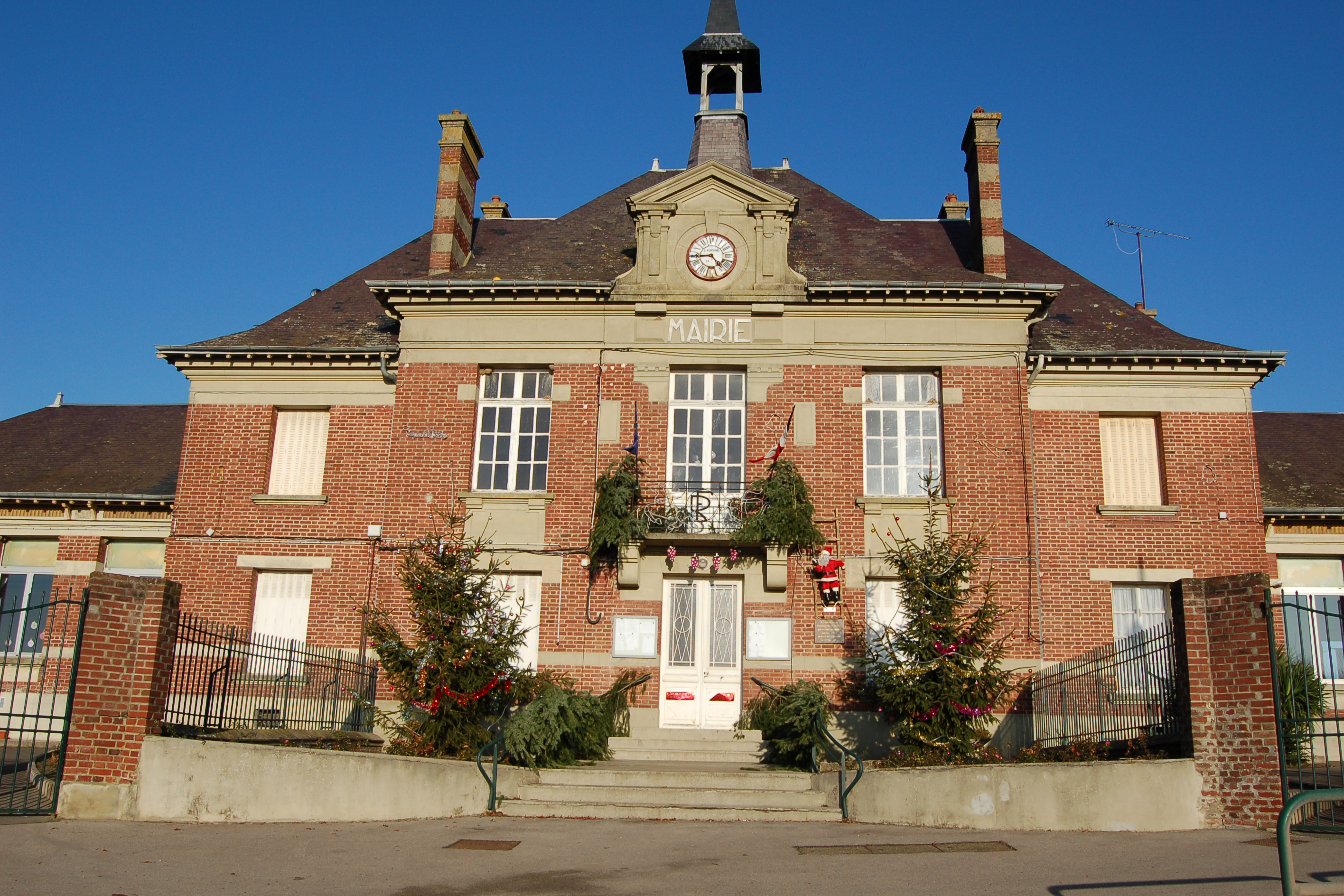 La Mairie de Frières-Faillouël